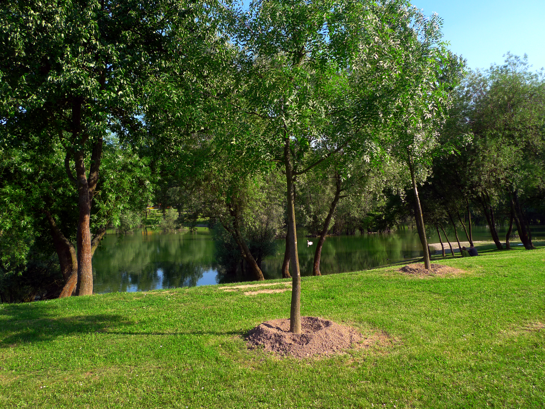 Young trees planted along the lake Bundek.